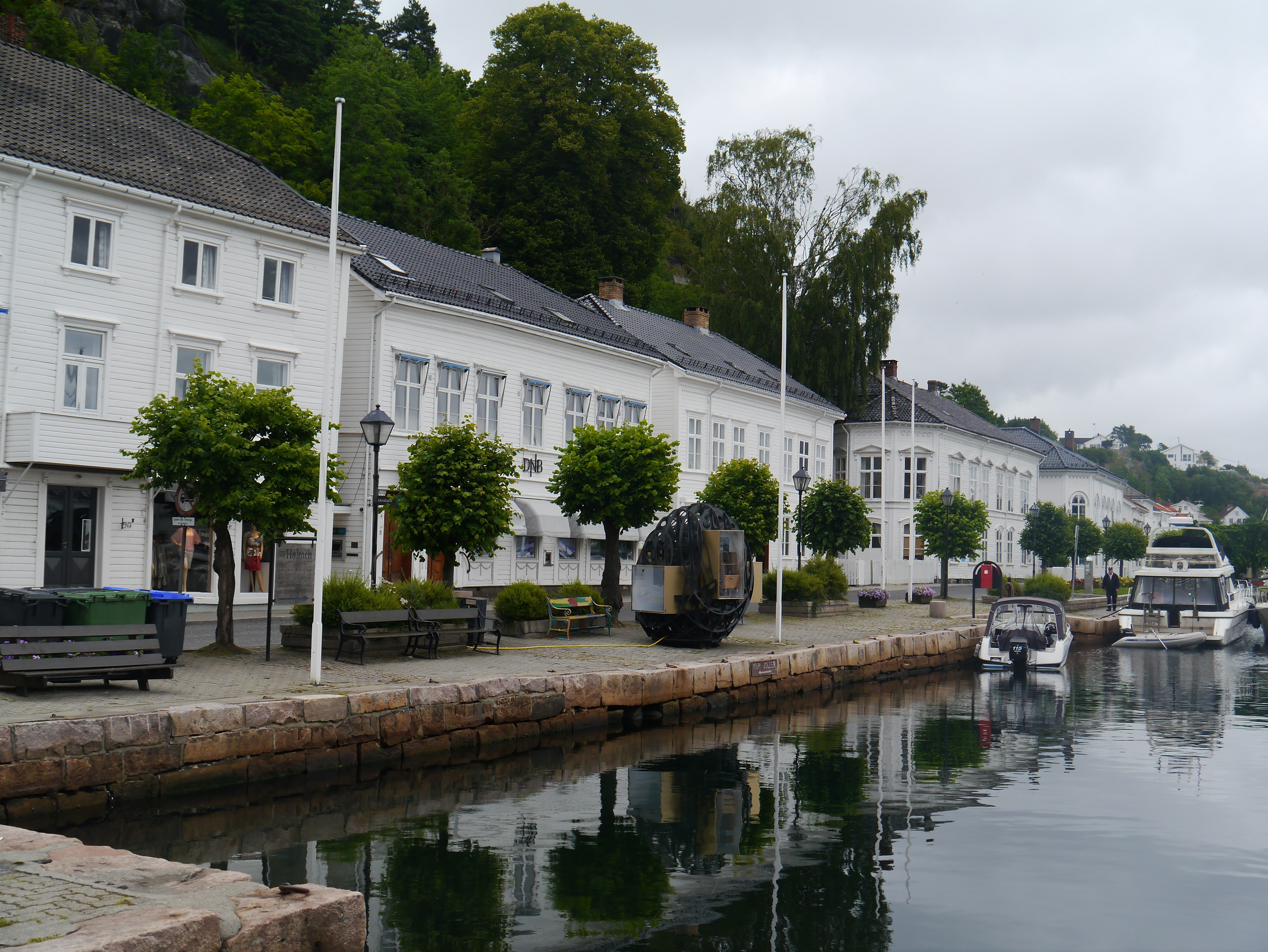 the old town of Risör, Aust-Agder County, Southern Norway